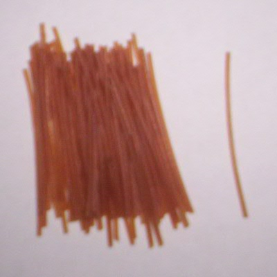 Sticks of cordite obtained from a British .303 rifle cartridge. The cartridges in which this cordite was found were Mk. VII MF made in 1940 at Small Arms Ammunition Factory No. 1 Footscray, Australia.